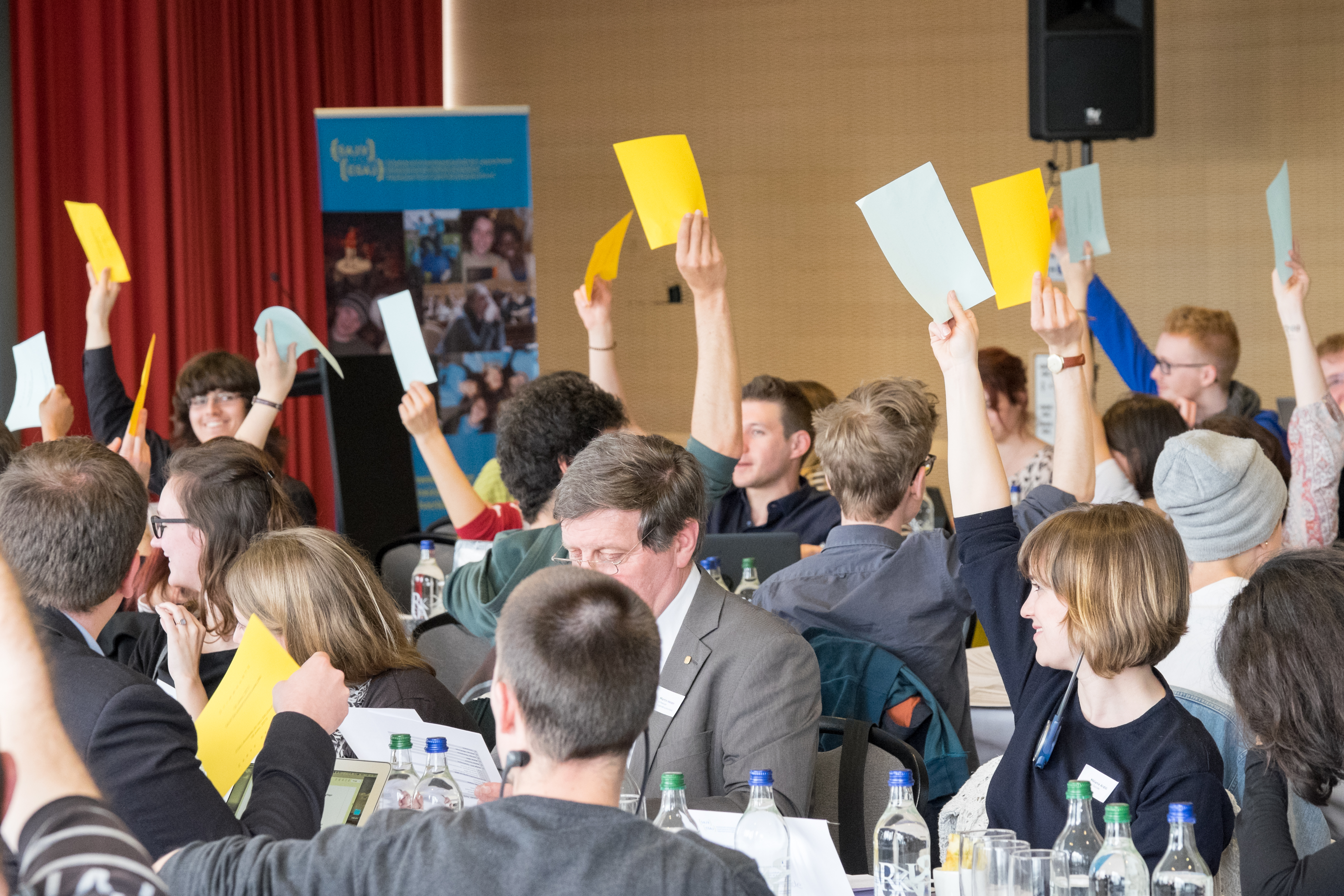 Assembly of delegates of the Swiss National Youth Council 2015